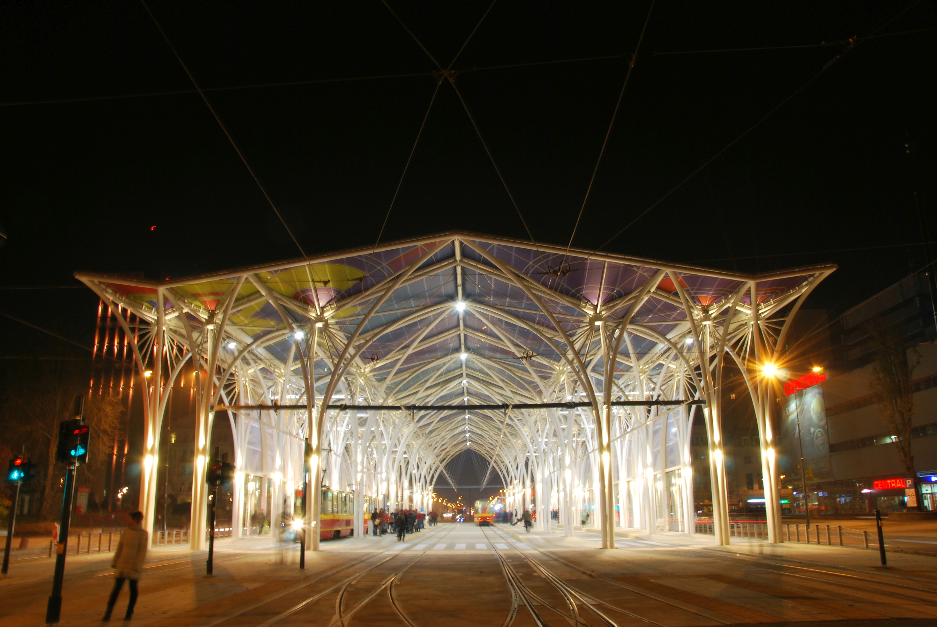 Tram transfer station, Łódź Piłsudskiego Av. October 2015